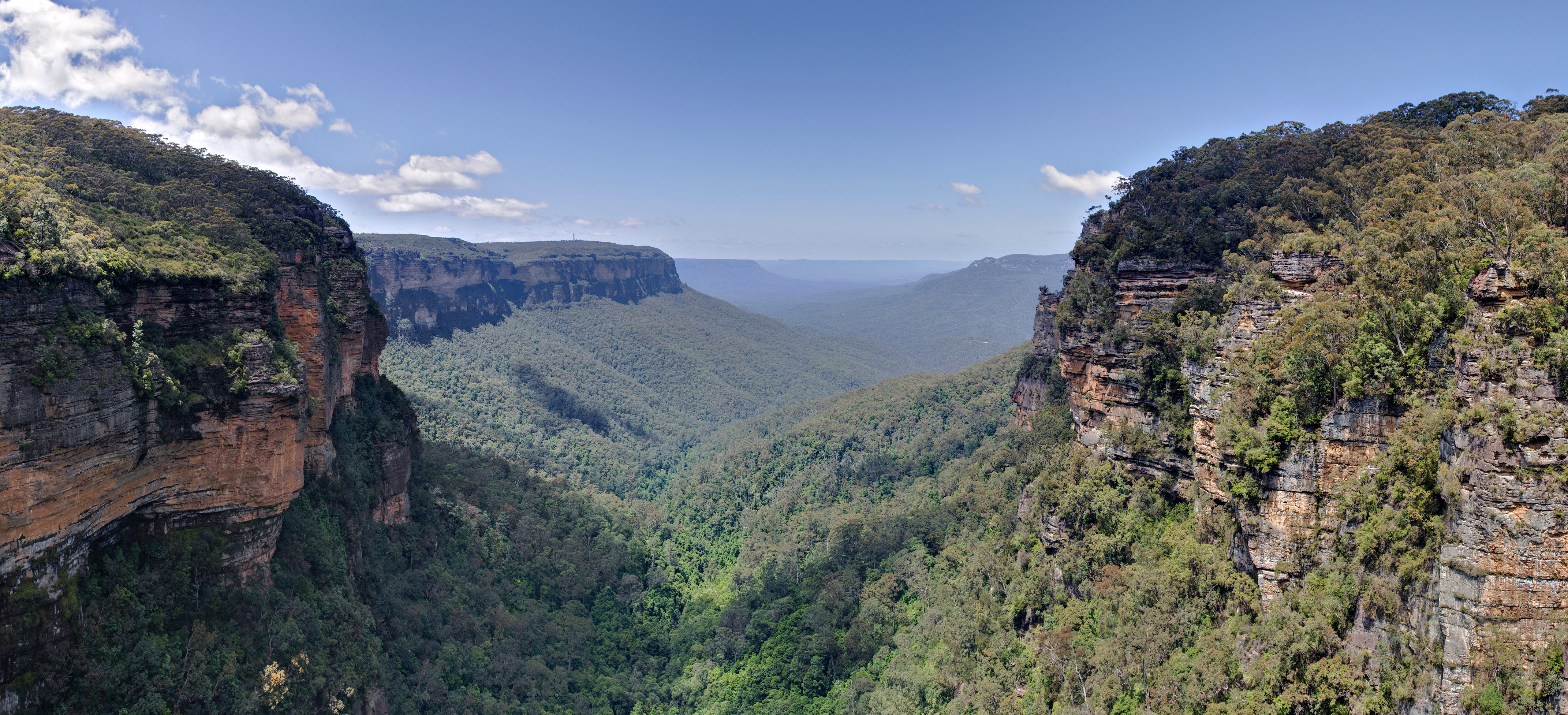 A panoramic view of the Jamison Valley in the Blue Mountains, New South Wales, Australia. Taken by myself with a Canon 5D and 24-105mm f/4L IS lens as a 3 segment exposure blended panorama.